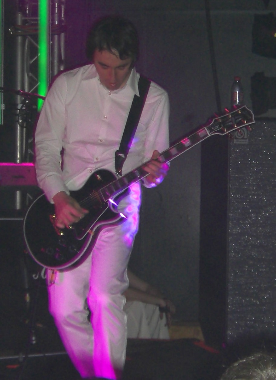 Jeff Schroeder, a long-time guitarist for the alternative rock band The Smashing Pumpkins